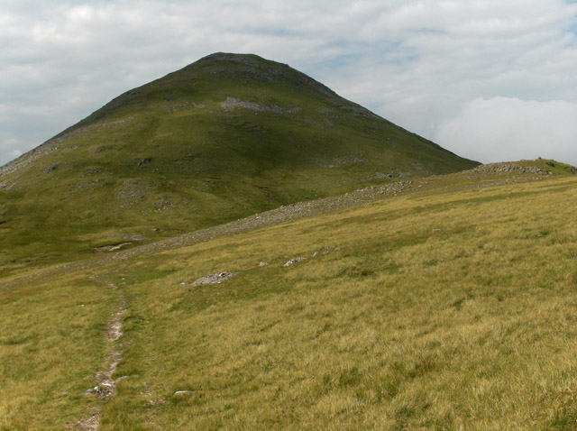 Bealach Beag and Beinn Fhionnlaidh. The summit of Beinn Fhionnlaidh in NH1128 is set back along a ridge and can't be seen in the picture.